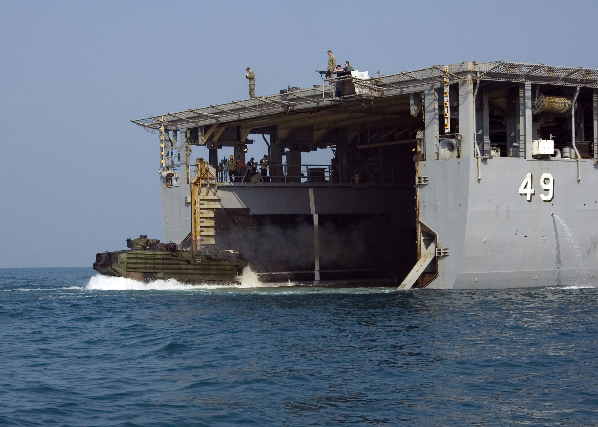 UTAPHAO, Thailand (Feb. 13, 2009) An amphibious assault vehicle assigned to the 31st Marine Expeditionary Unit (MEU) launches from the well deck of the amphibious dock landing ship USS Harpers Ferry (LSD 49) during Exercise Cobra Gold 2009. Harpers Ferry and the 31st MEU are taking part in Exercise Cobra Gold, an annual Thailand and U.S. co-sponsored joint coalition multinational military exercise designed to train a Thai, U.S. and Singaporean Coalition Task Force. The exercise will also include humanitarian civic action projects with participating nations from Indonesia, Japan, Singapore, Thailand and the U.S. (U.S. Navy photo by Mass Communication Specialist 2nd Class Matthew R. White/Released)